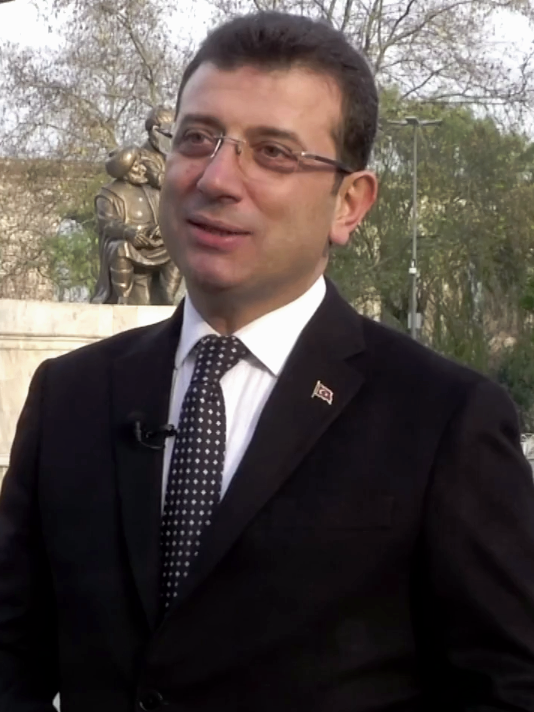 Ekrem İmamoğlu, Mayor of Istanbul Metropolitan Municipality, during an interview about 2019 Turkish local elections.